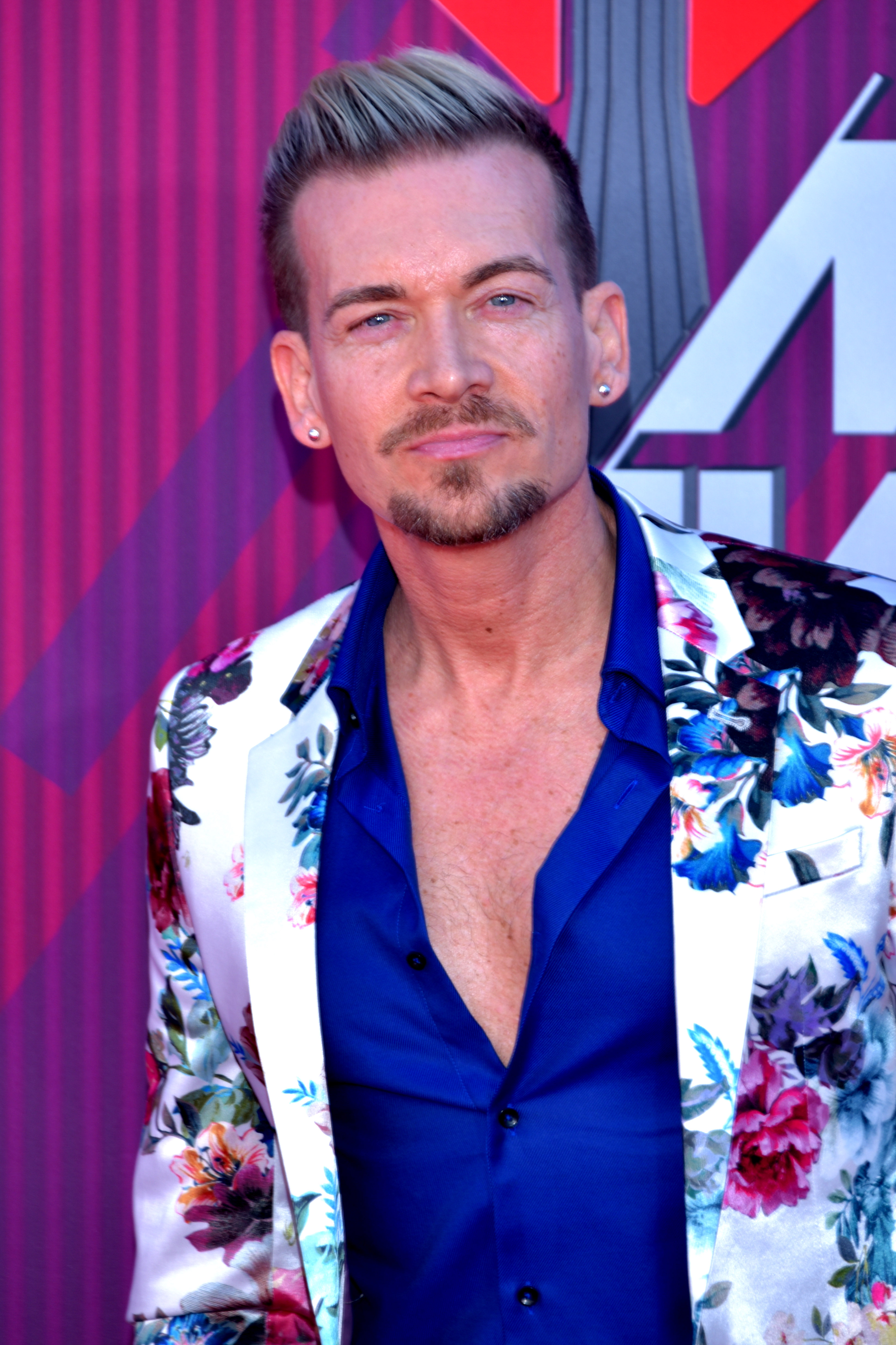 Damon Sharpe at the 2019 iHeartRadio Music Awards in Los Angeles California on March 14, 2019 - Photo by Glenn Francis of